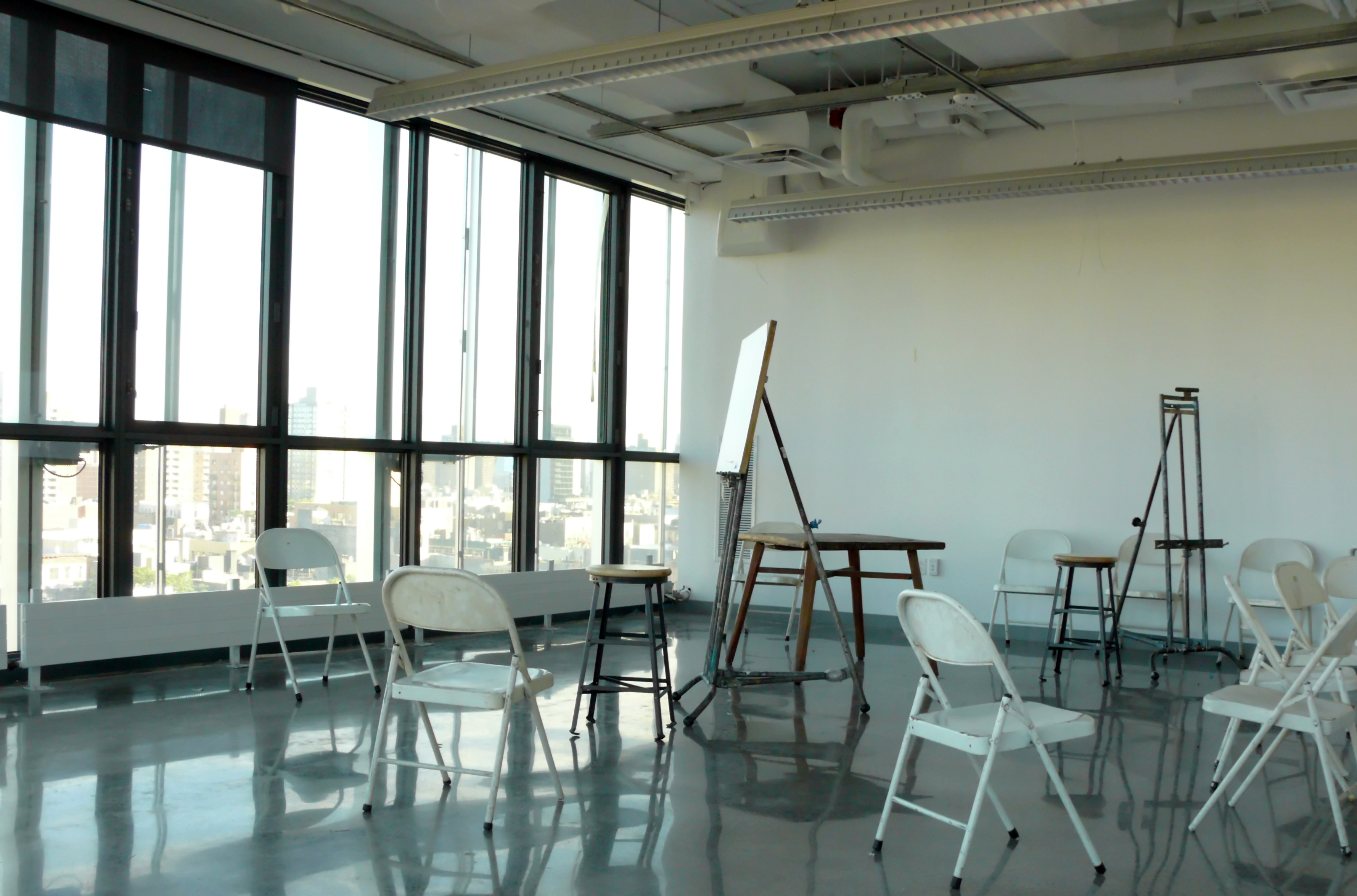 Painting/Drawing studio and classroom on the ninth floor of the Cooper Union New Academic Building.